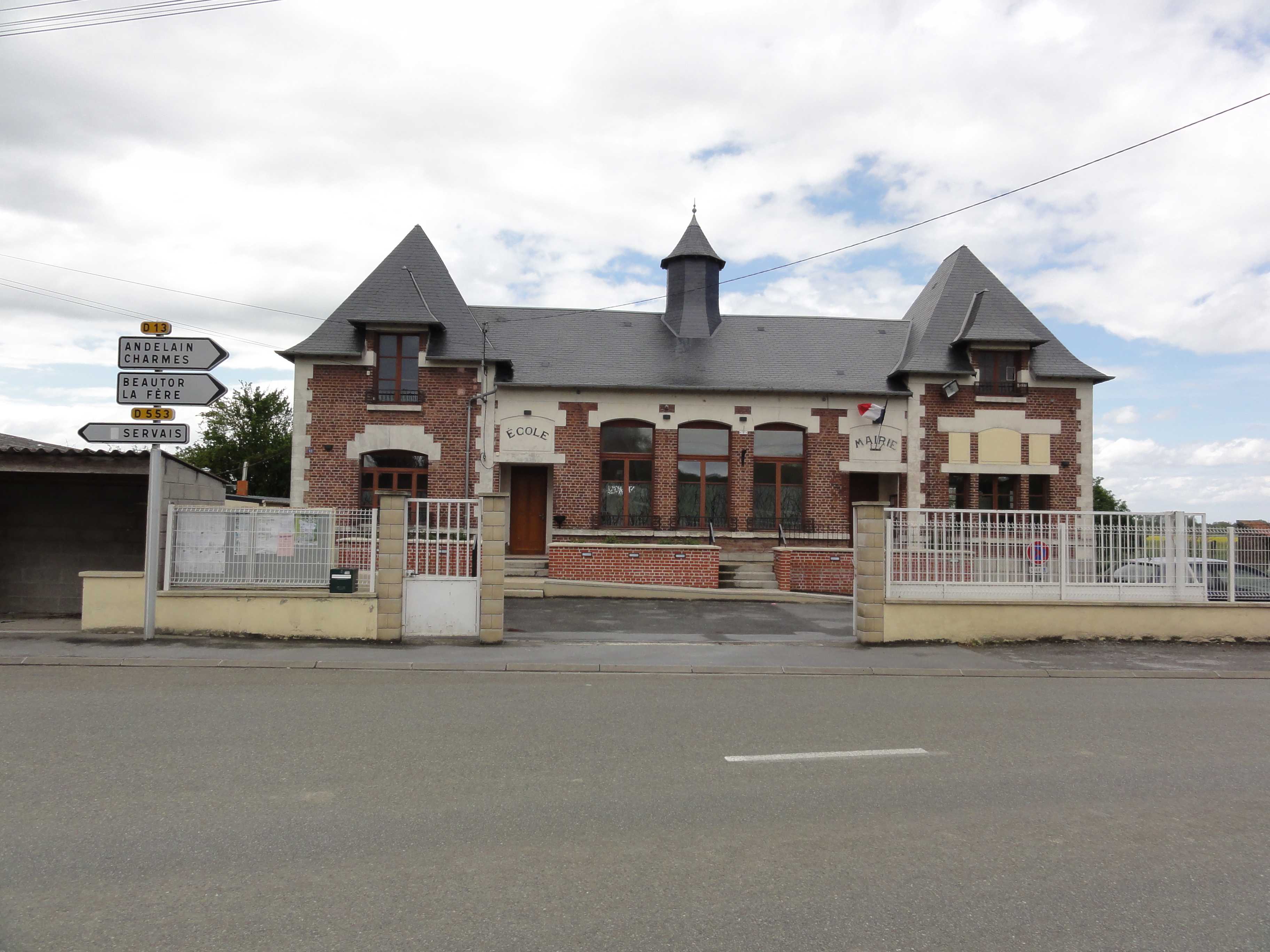 Deuillet (Aisne) mairie - école